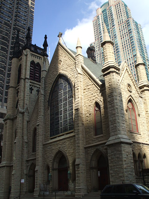 St. James Cathedral, Chicago by Gerald Farinas